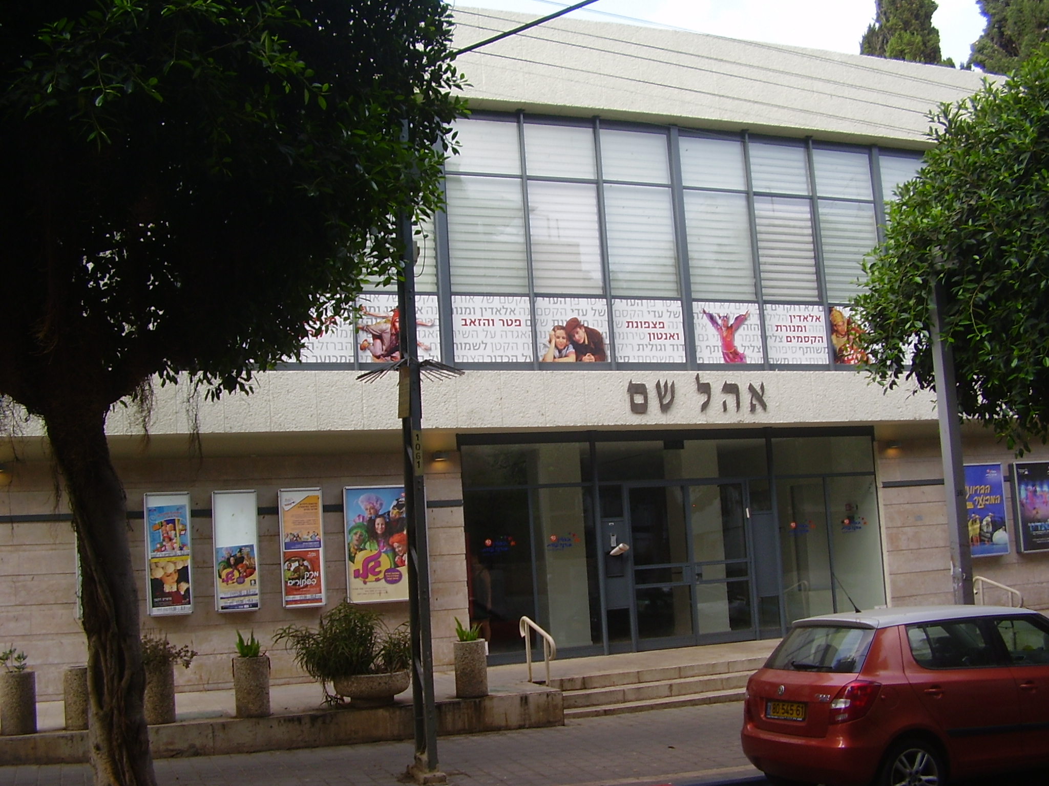 ohel shem hall in tel aviv אולם אהל שם בתל אביב